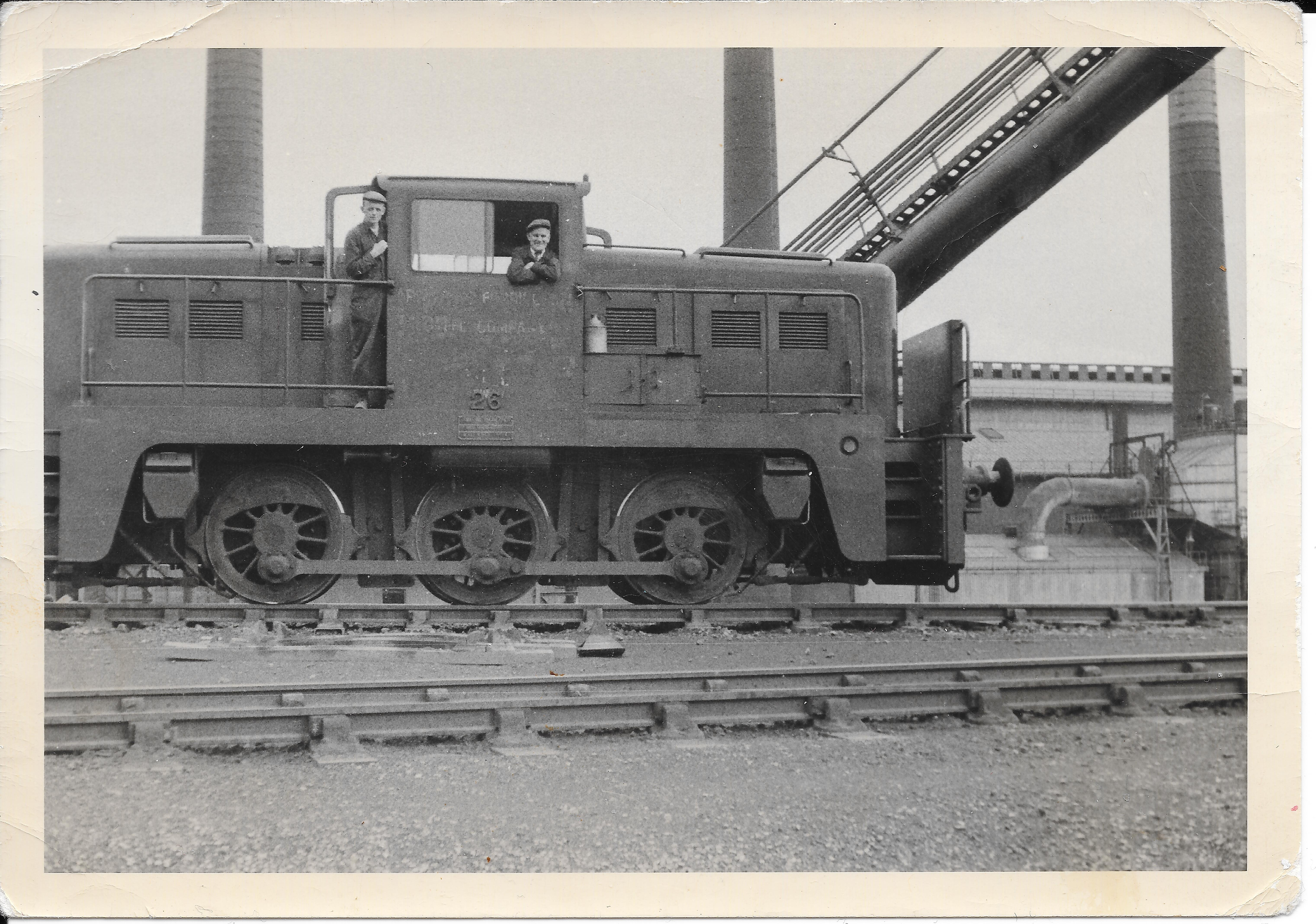 Janus Diesel-electric Shunting Loco built by Yorkshire Engine Company Appleby Frodingham Steelworks Scunthorpe John William Fillingham (1905-1969)